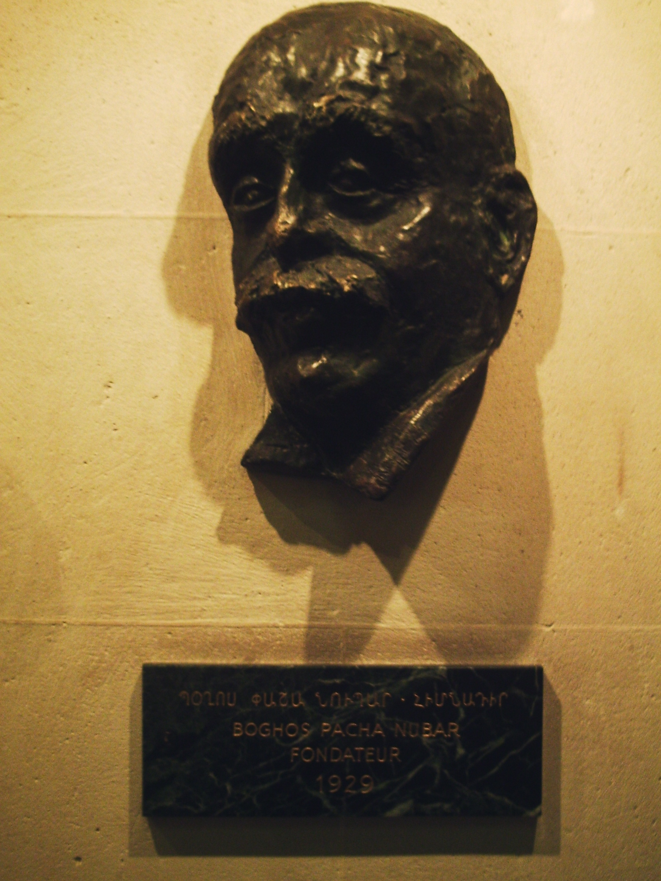 Top of Boghos Nubar Pacha in MEA Paris